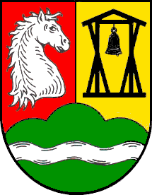 Coat of Arms of Haßbergen